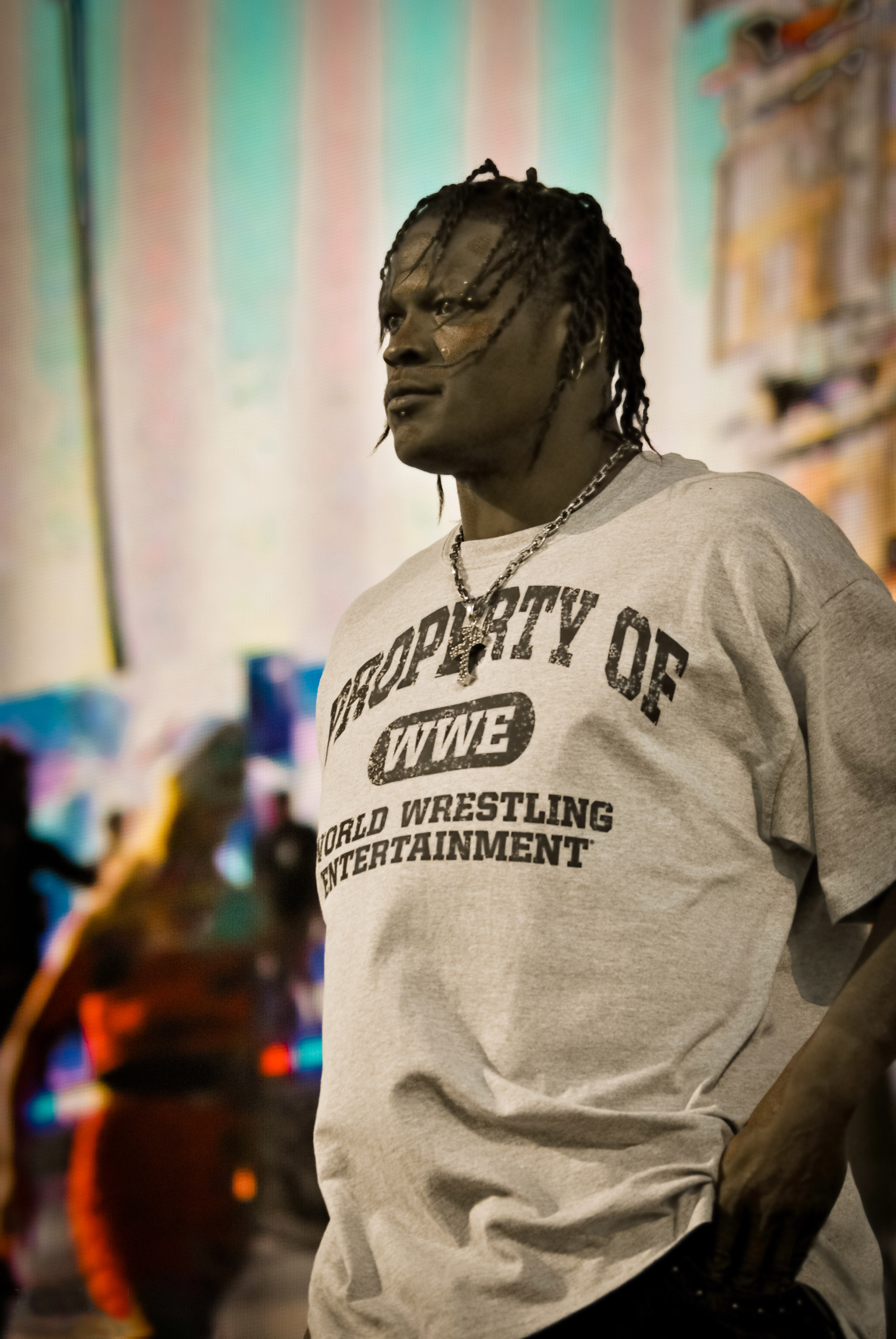 R-Truth at WWE's Tribute to the Troops show in Fort Hood, Texas, on December 11, 2010.